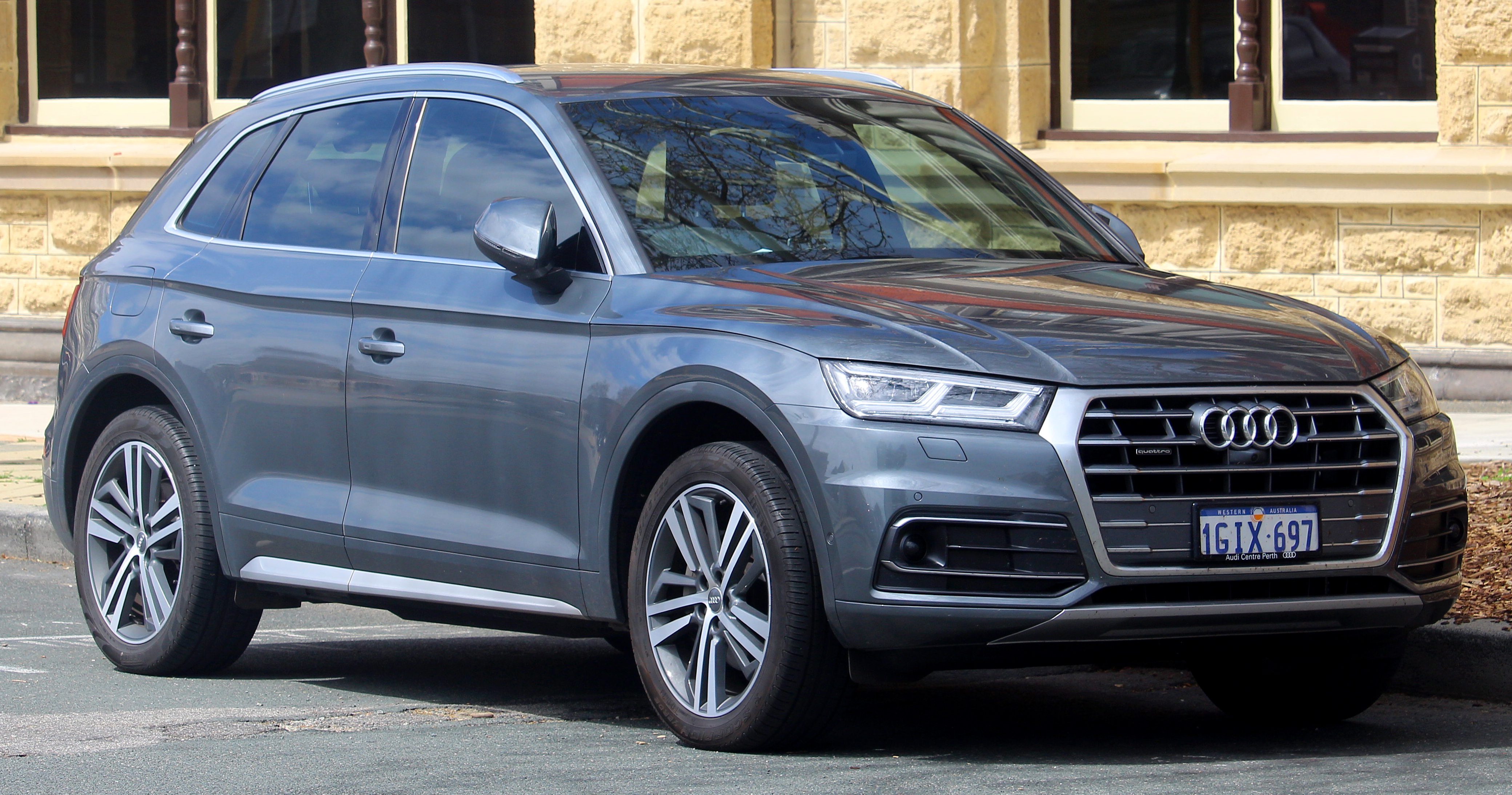 2017 Audi Q5 (FY) TDI Sport quattro ultra wagon. Photographed in Fremantle, Western Australia, Australia.